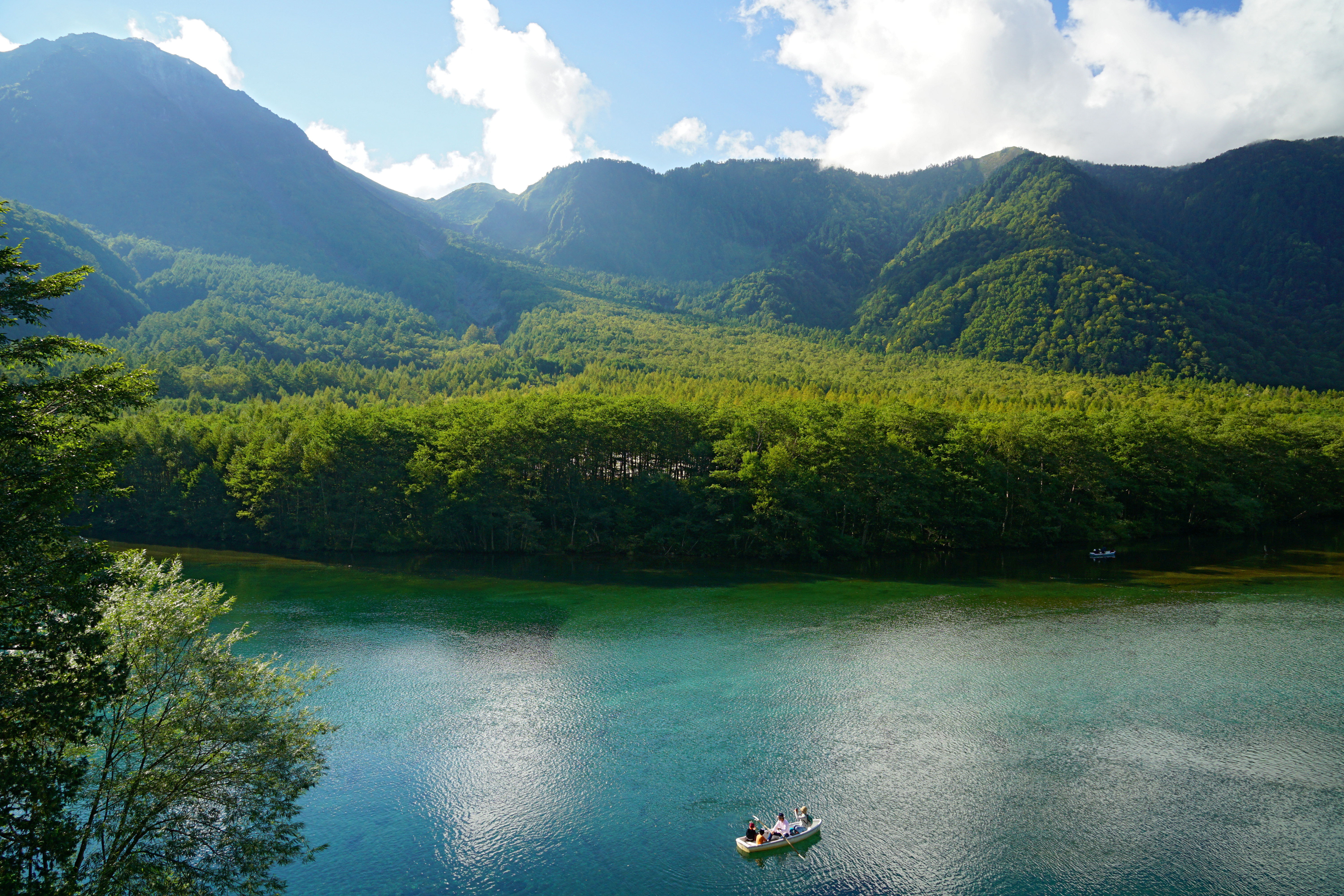 At Taisho-ike in Kamikochi, Matsumoto, Nagano prefecture, Japan